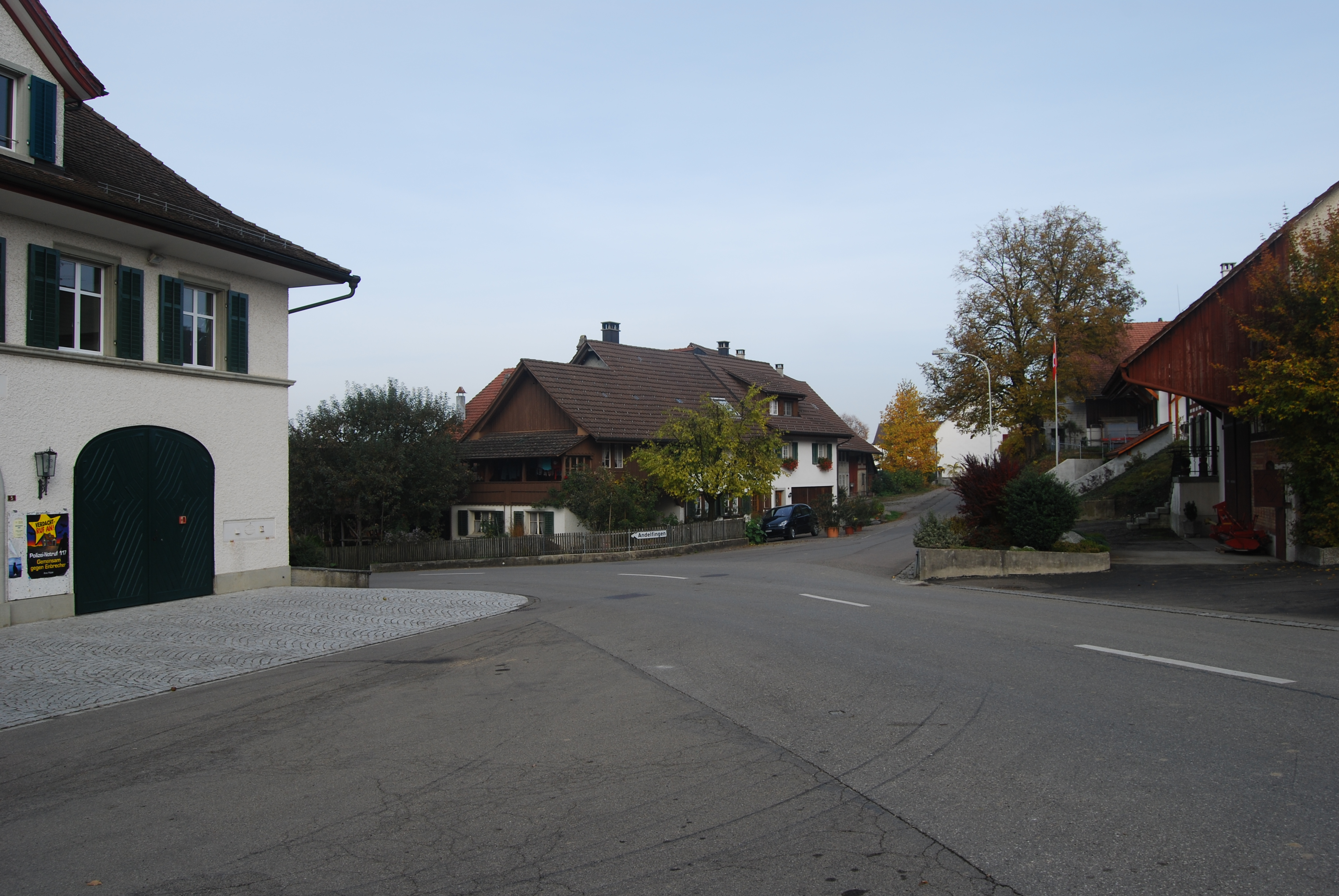 Humlikon, canton of Zürich, SwitzerlandEsperanto: Humlikon, Kantono Zuriko, Svislando